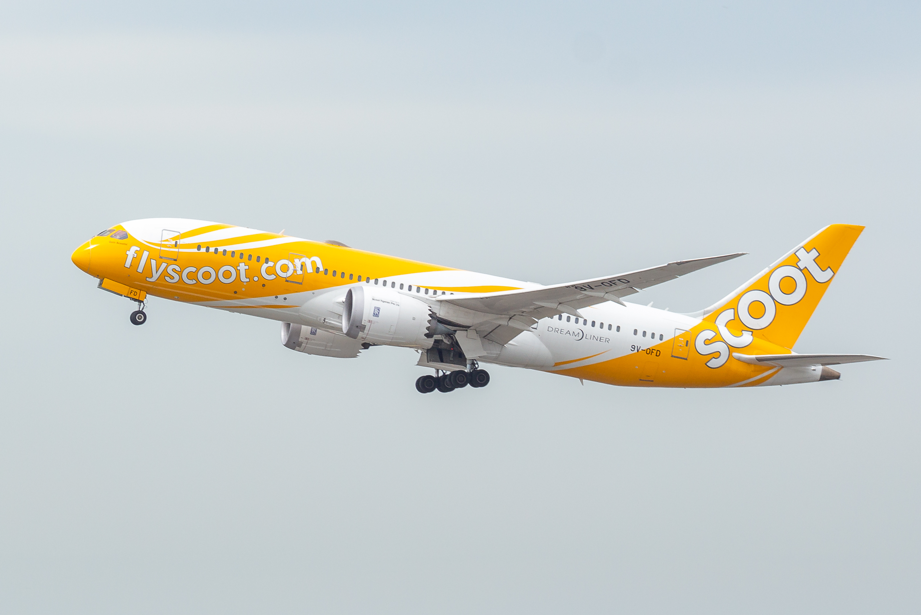 Scoot Boeing 787-8 departing Sydney Airport in 2018